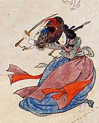 Detail from an early 19th-century Korean painting titled "Ssanggeomdaemu" (쌍검대무 雙劍對舞) by Hyewon, depicting a female entertainer performing a sword dance. Cropped from original by User:Visviva. Original available here: [1]